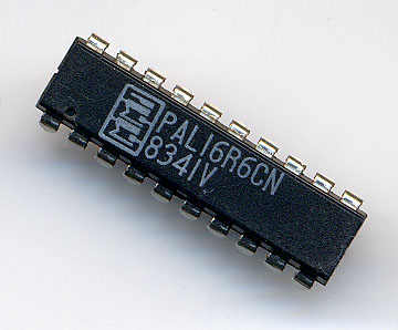 Programmable Array Logic, PAL Introduced 1978 by Monolithic Memories, Inc. This IC could be configured by a user to replace many standard TTL logic ICs. Photo by Michael Holley, 2006.